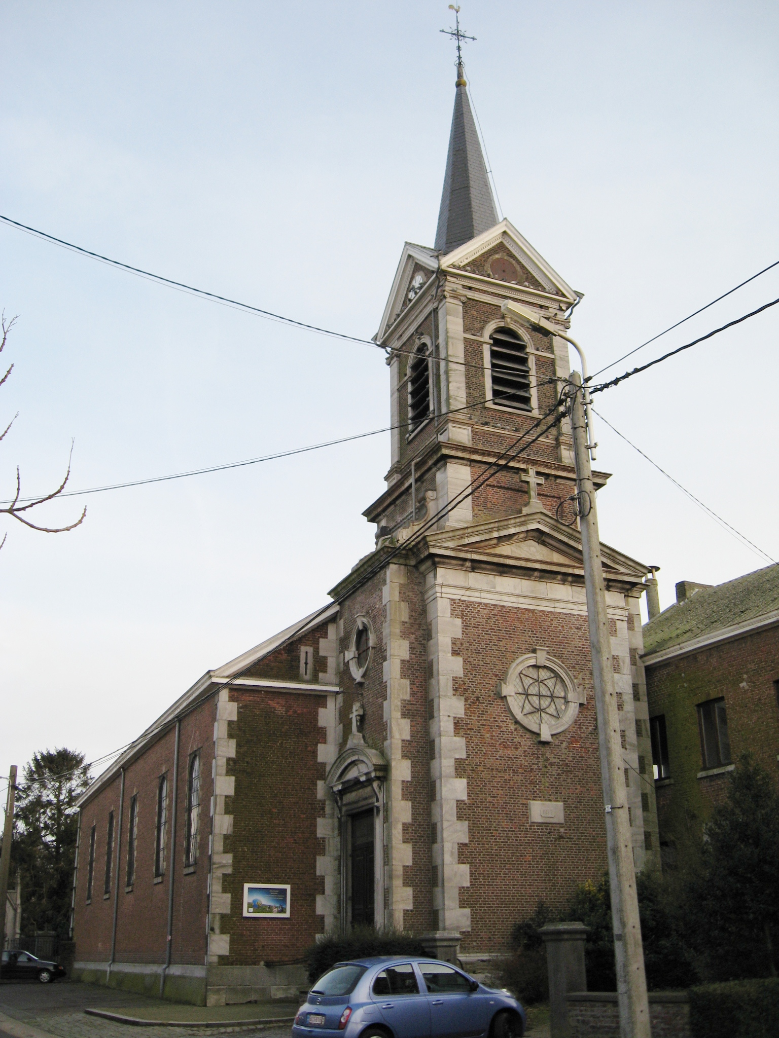 Church of Saint Remaclus in Fexhe-Slins, Juprelle, Liège, Belgium